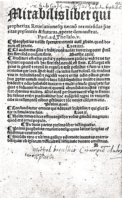 Title page of Mirabilis Liber, Paris ; Ambroise Girault, ca 1522-1528